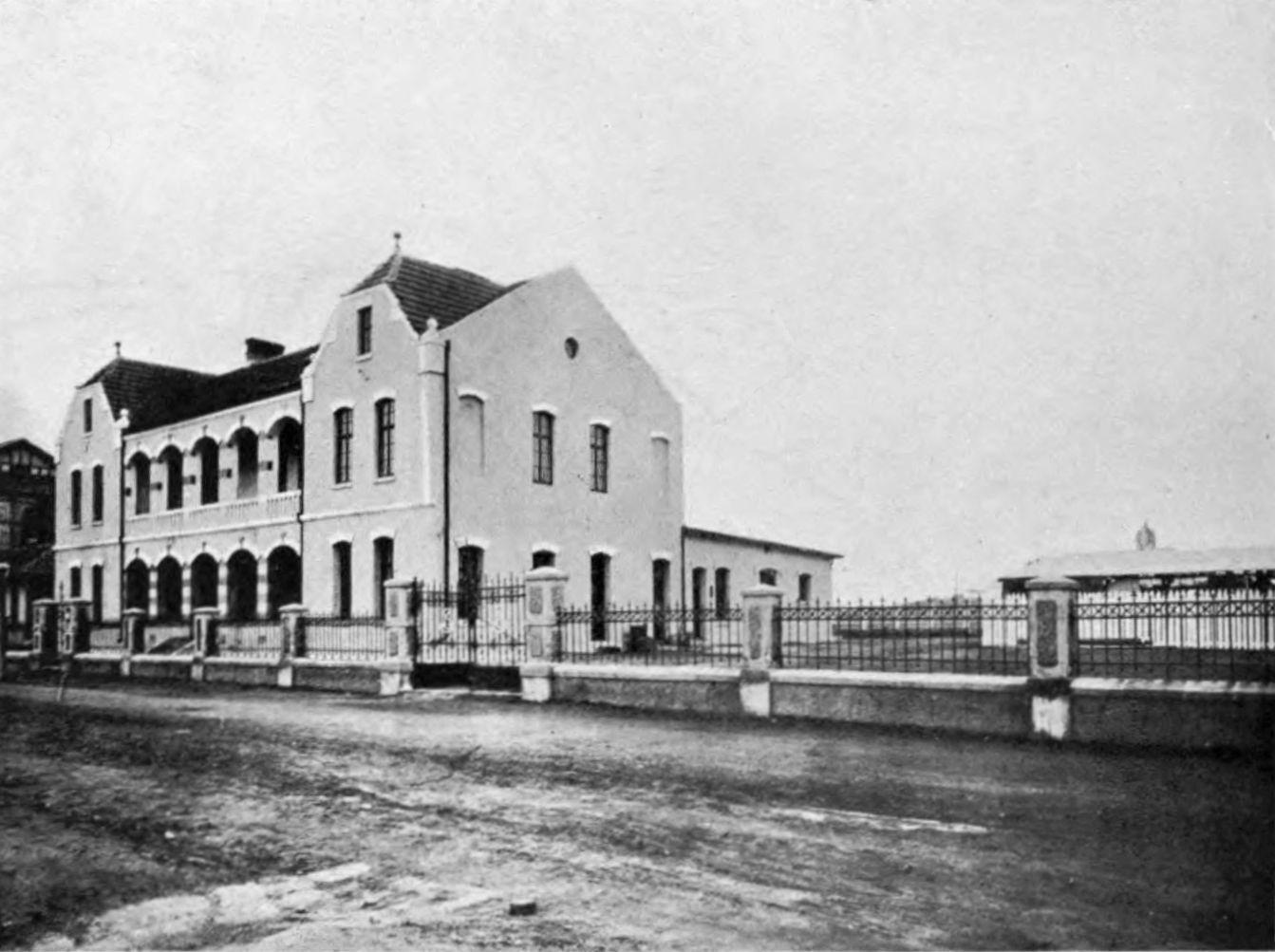 siemssen & co commercial operations in tsingtau